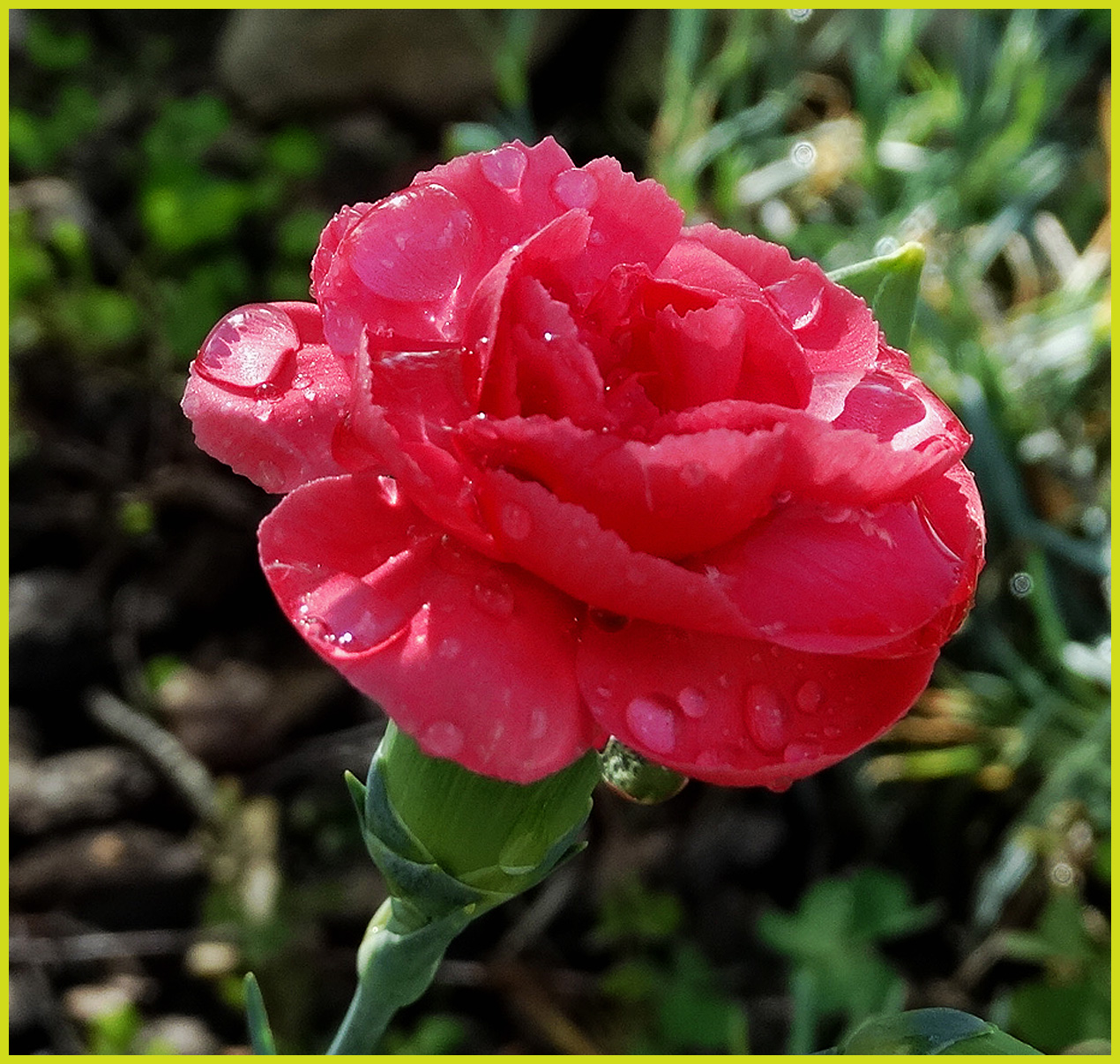 Flowers and Other Wonders (2)